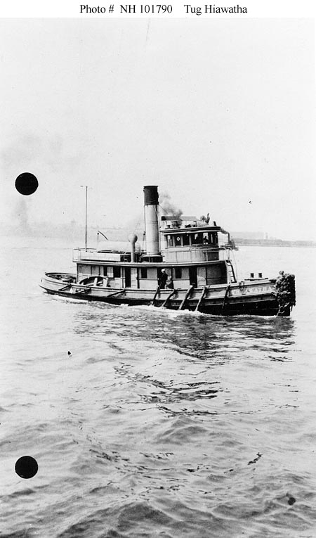 Tug Hiawatha prior to her United States Navy service as USS Hiawatha (SP-2892)